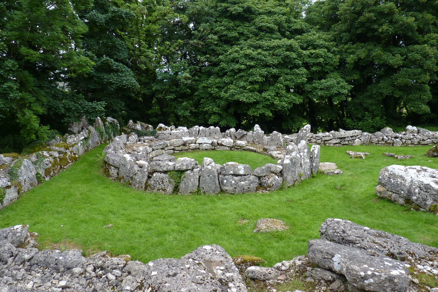 Part of the Din Lligwy hut group of Iron Age houses and workshops, surrounded by an enclosing wall.